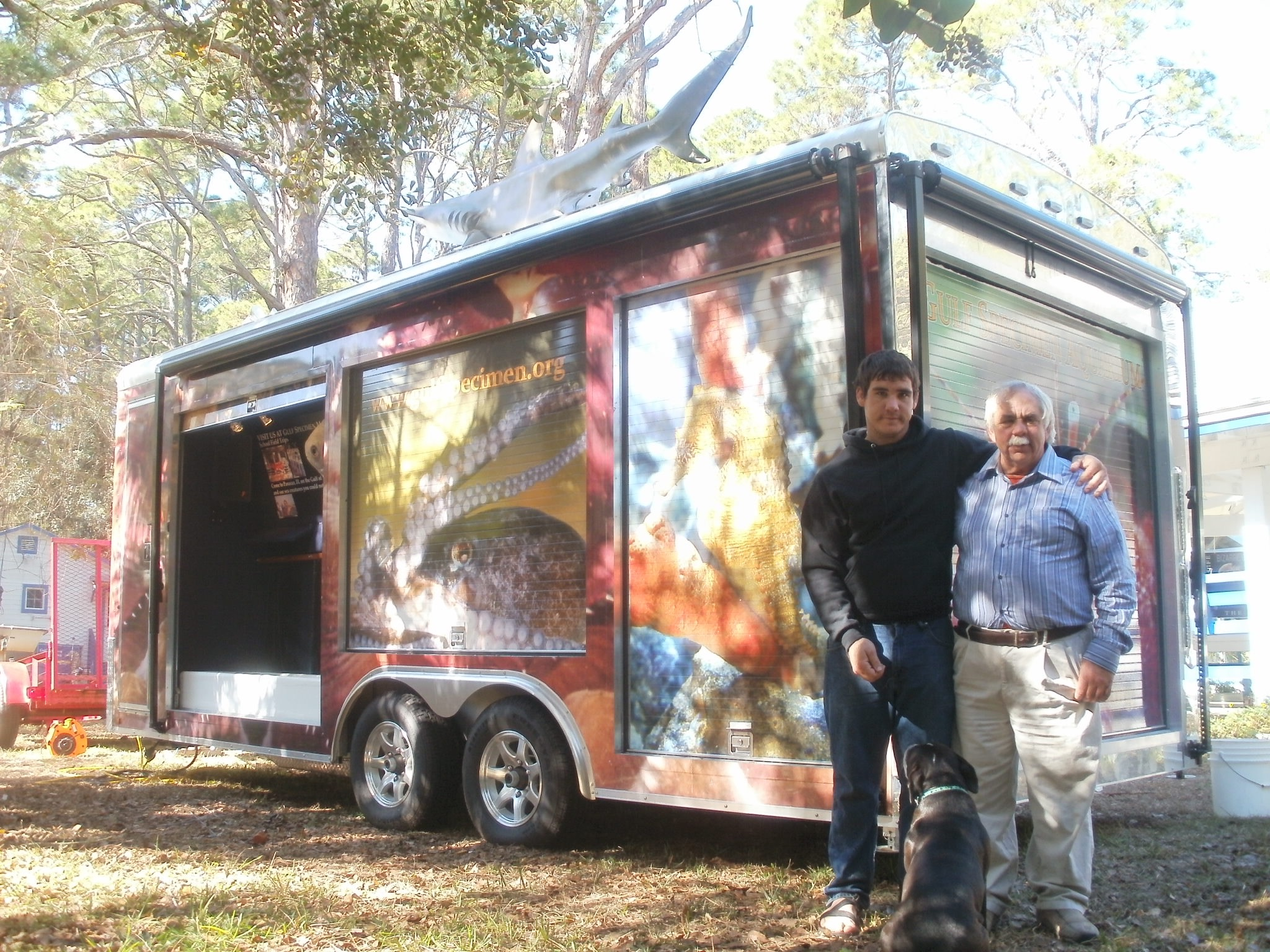 Jack Rudloe and Cypress Rudloe with the Sea Mobile